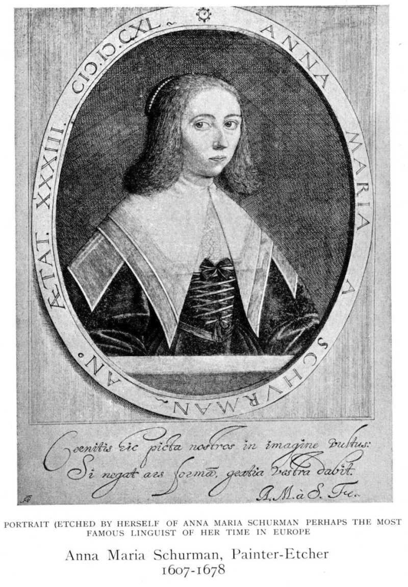 self-portrait